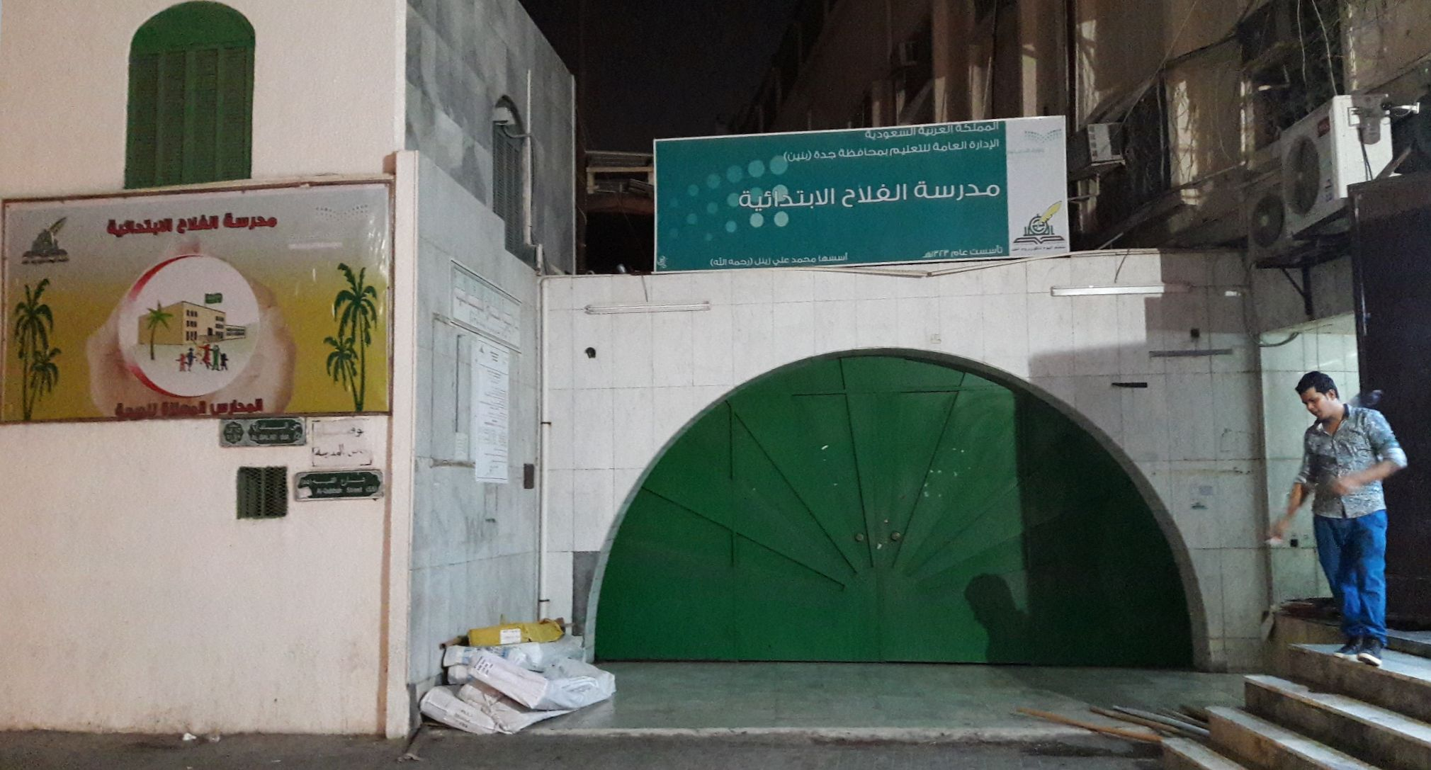 Old Jeddah